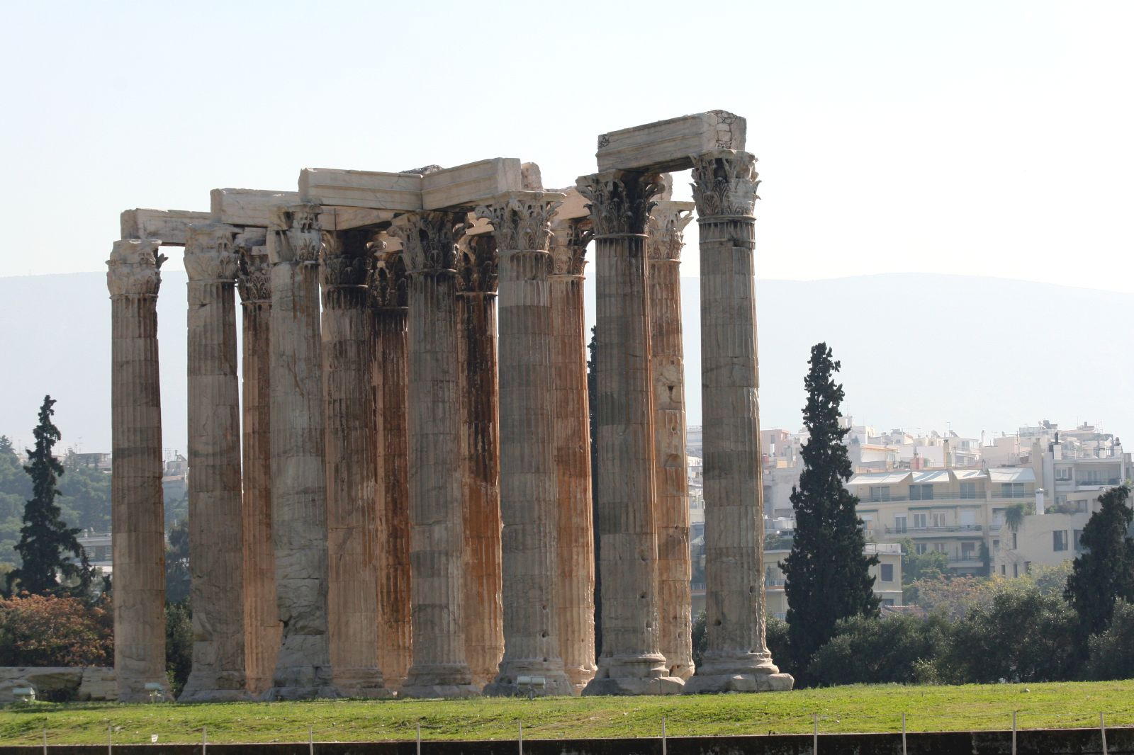 Full view of the area around the Temple of Olympian Zeus in in Athens, Greece.